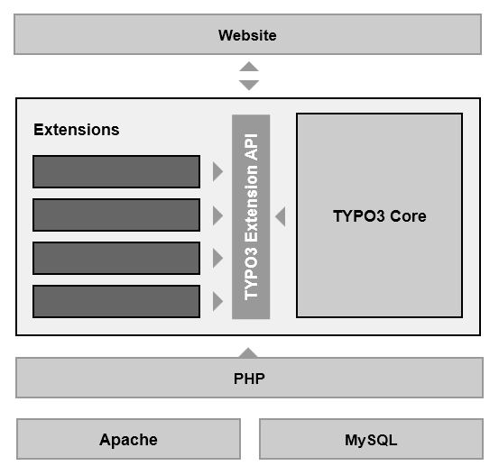 Diagram explaining the basic TYPO3 system architecture - separation between core and extensions